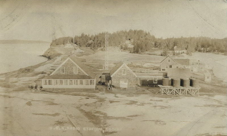 U.S. Navy wireless station on Woody Island in 1915. Built 1911, rebuilt 1914 after lightning strike and fire.